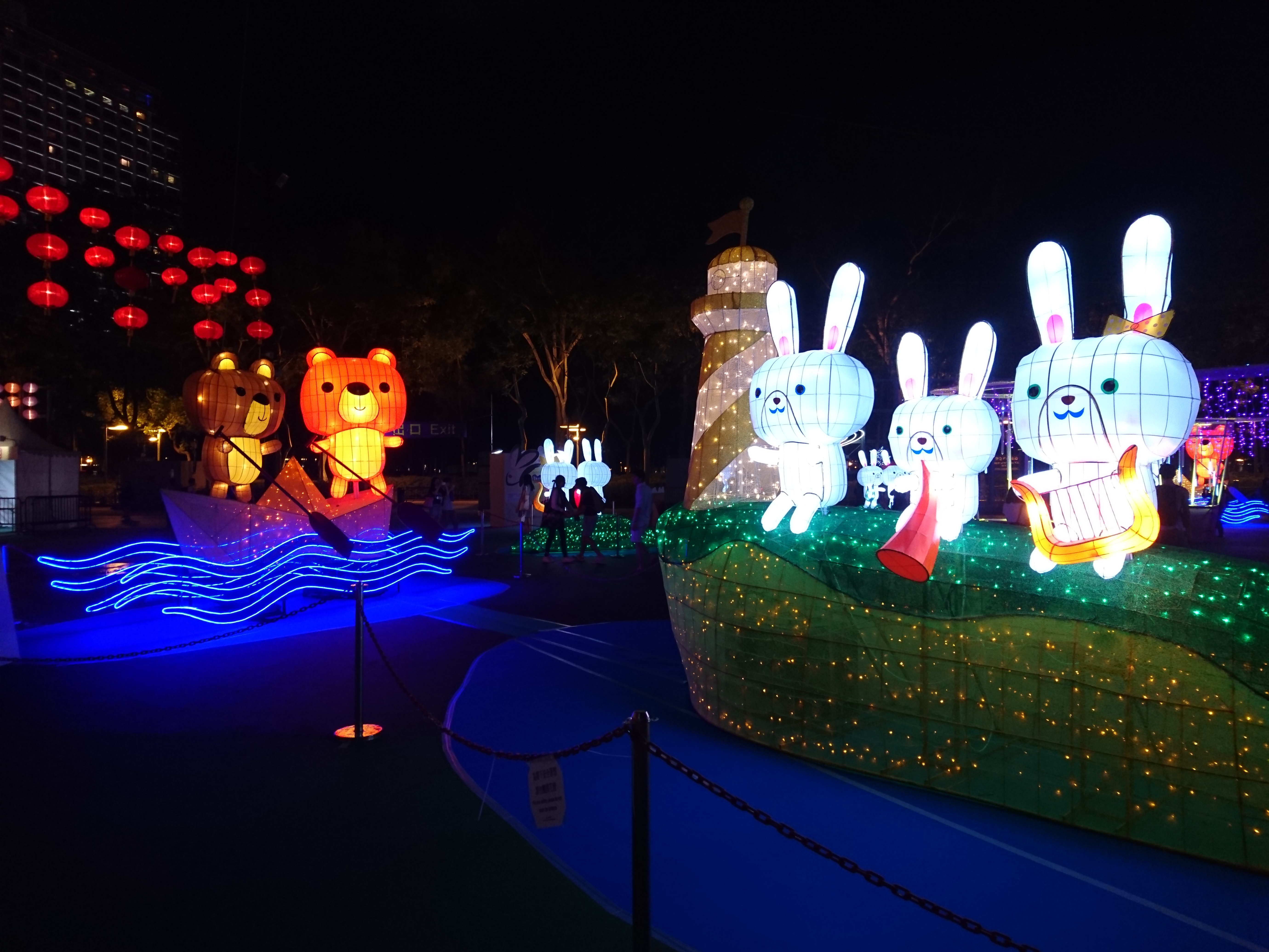 Urban Mid-Autumn Lantern Carnival 2017 (2)